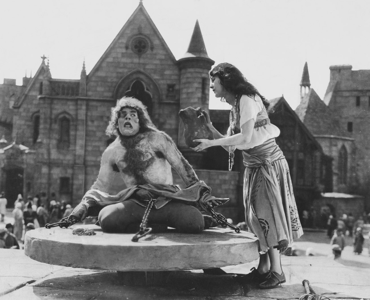 A publicity photo from the 1923 movie The Hunchback of Notre Dame, which is now in the public domain.